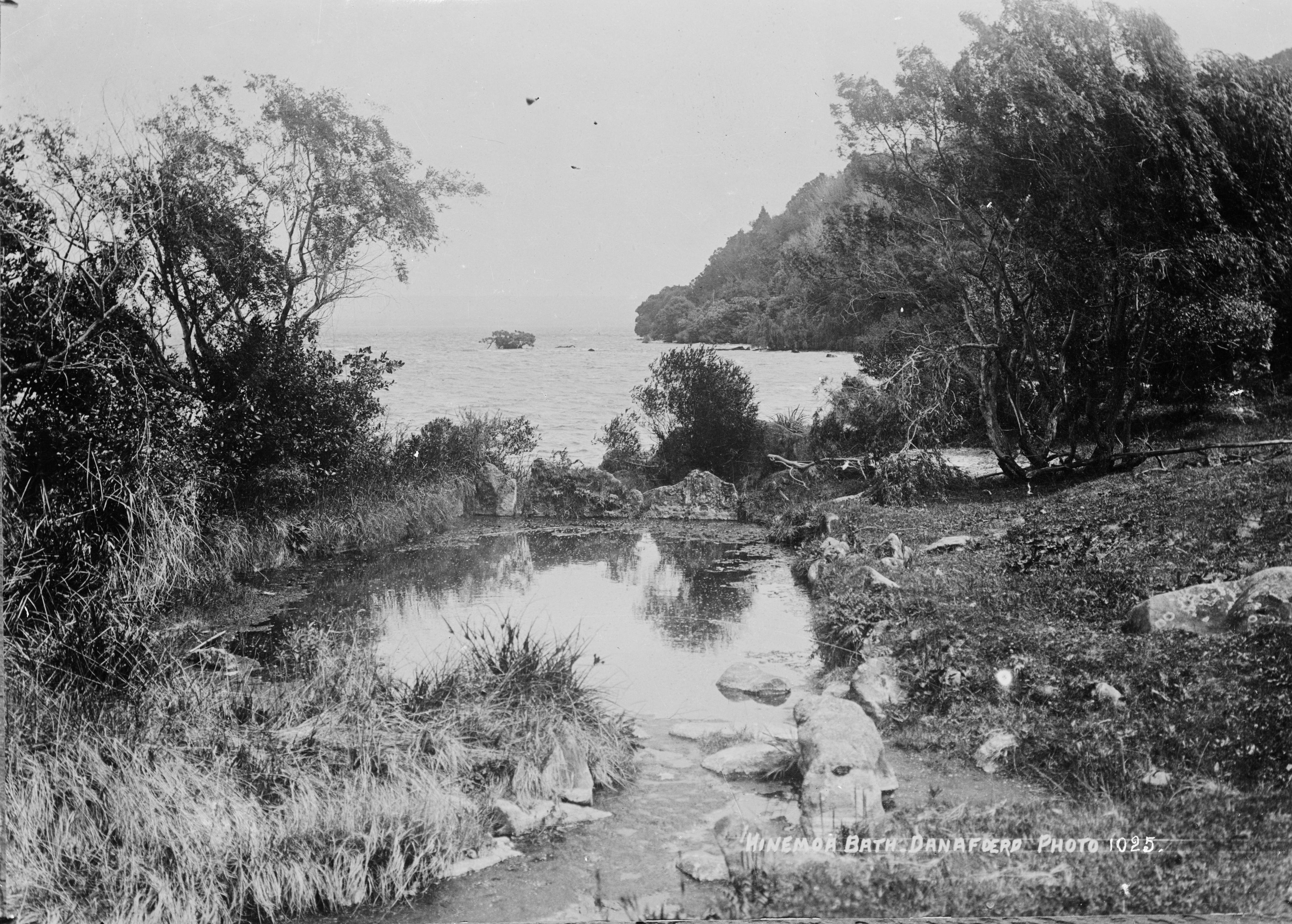 Hinemoa's Bath, a thermal pool on Mokoia Island, Lake Rotorua. Copy made by William Archer Price of a photograph taken circa 1900, by Sigvard Jacob Dannefaerd. Inscriptions: Inscribed - Photographer's title on negative -bottom right: Hinemoa Bath Danafoerd Photo 1025. Quantity: 1 b&w original negative(s). Physical Description: Dry plate glass negative 4.75 x 6.5 inches Dannefaerd, Sigvard Jacob, 1853-1920. Himemoa's Bath, Mokoia Island - Photograph taken by Sigvard Jacob Dannefaerd. Price, William Archer, 1866-1948 :Collection of post card negatives. Ref: 1/2-001468-G. Alexander Turnbull Library, Wellington, New Zealand.